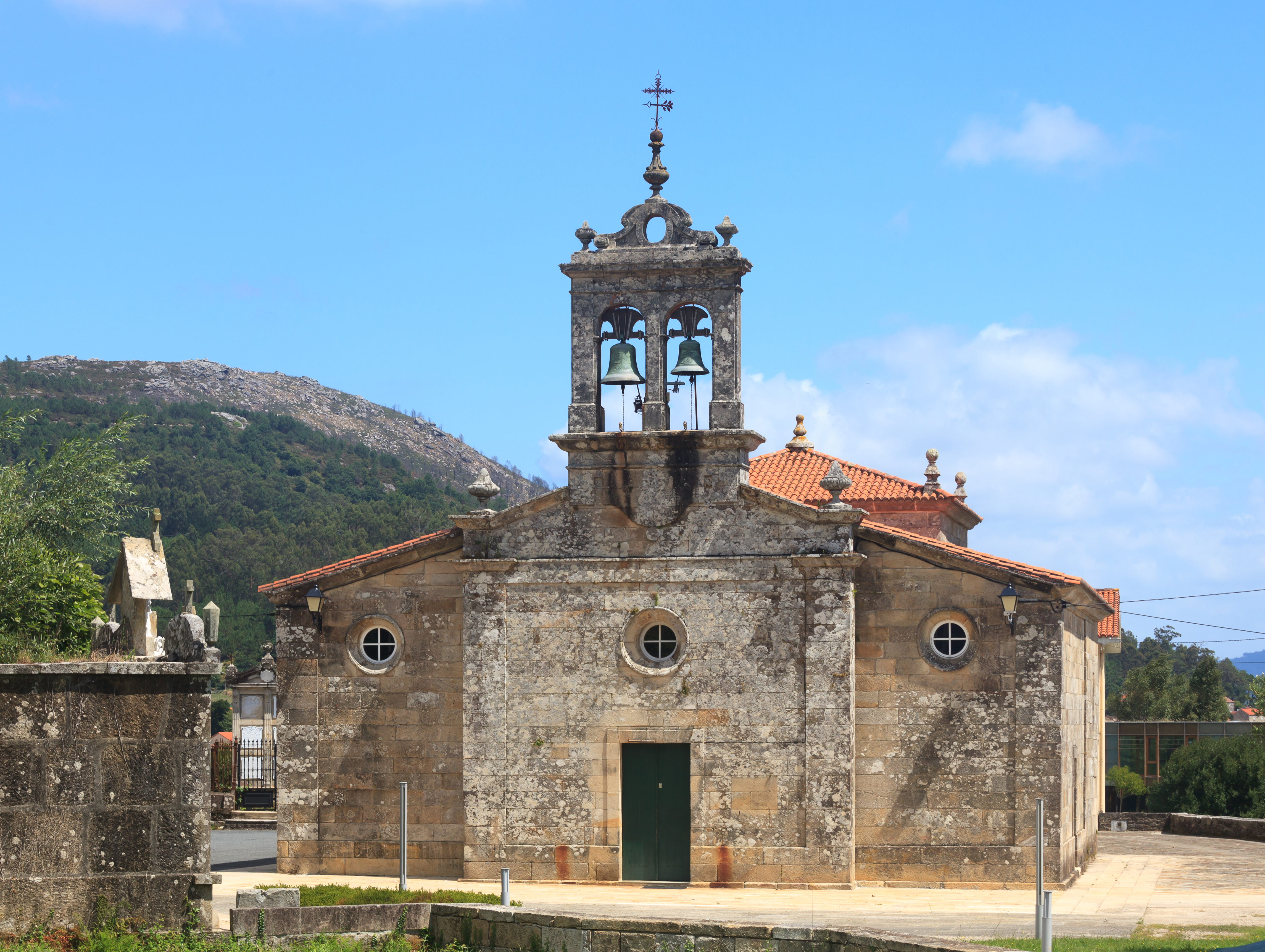 Church of Saint John of Serres, Muros, Galicia (Spain).